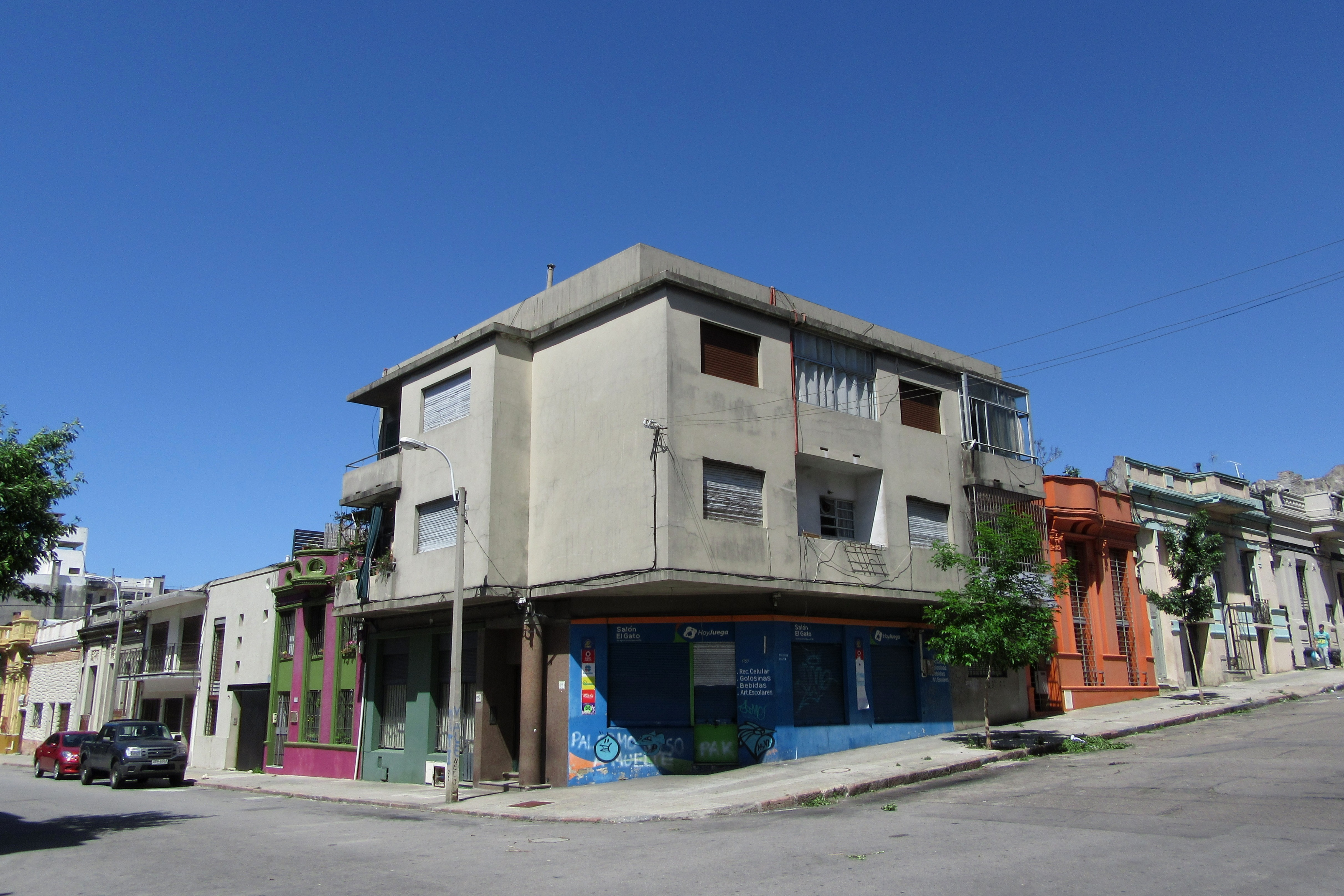 Montevideo